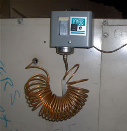 Mechanical Air Coil Freeze Stat